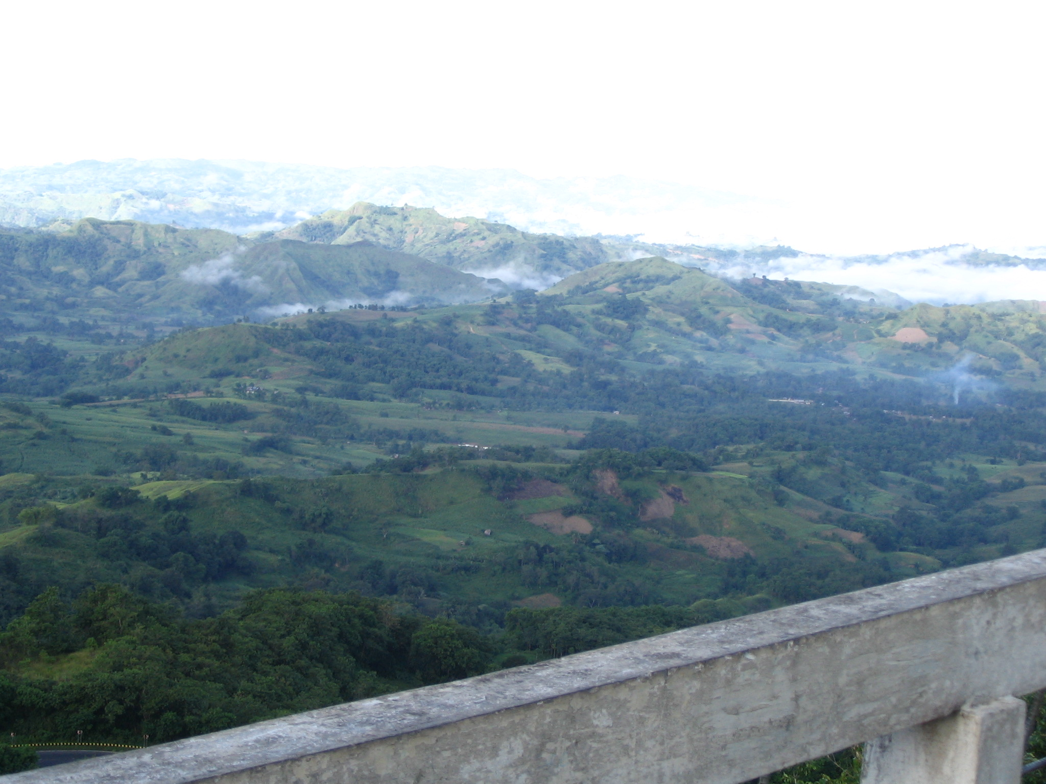 Overview at Quezon, Bukidnon